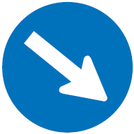 Luxembourg road sign diagram